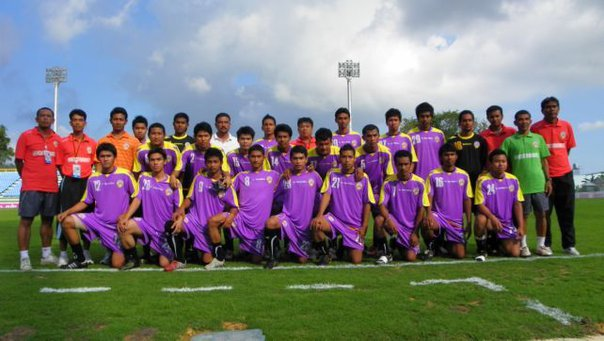 Nakhon Si Thammarat FC's current squad